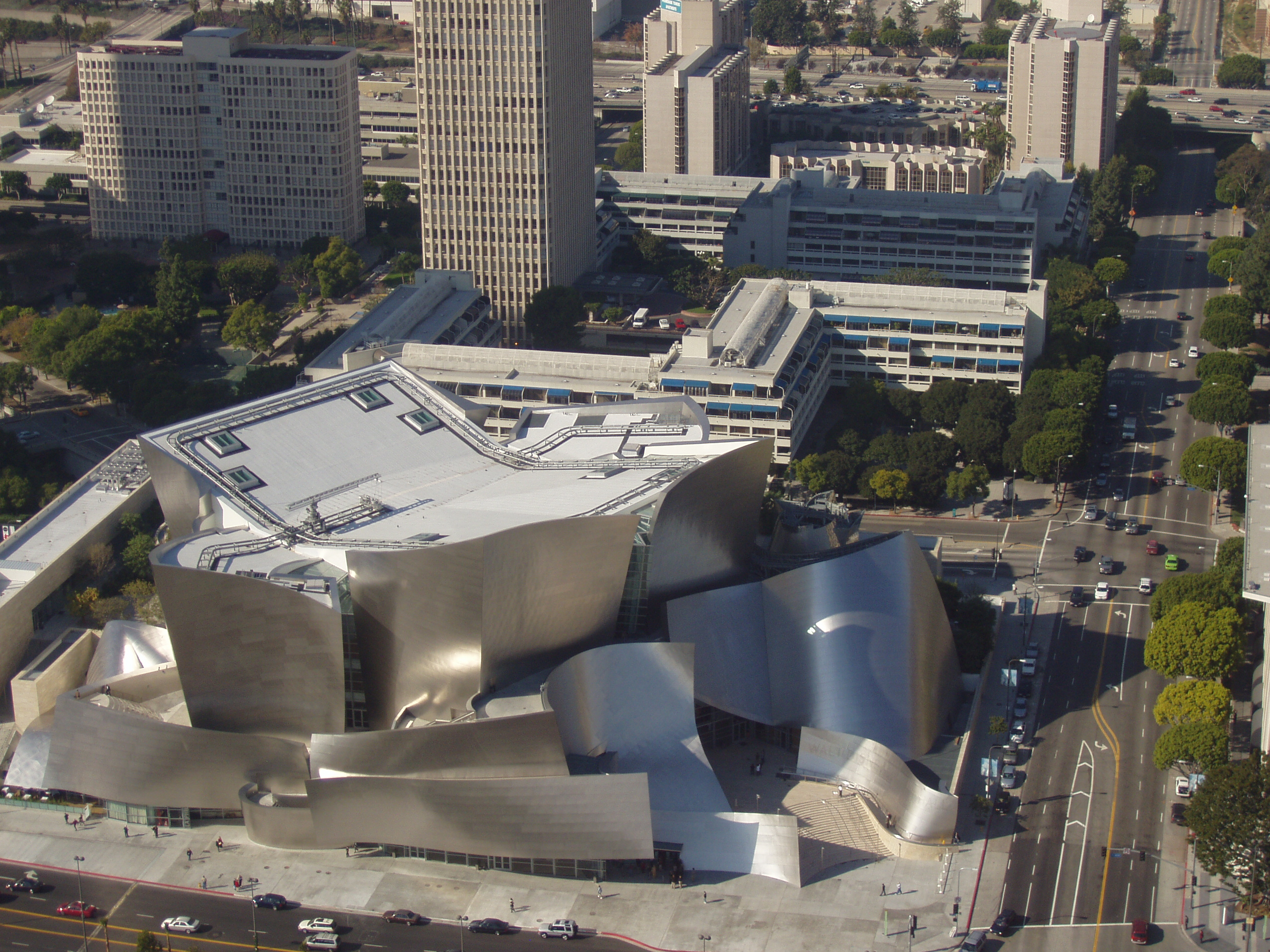 Walt Disney Concert Hall, Los Angeles